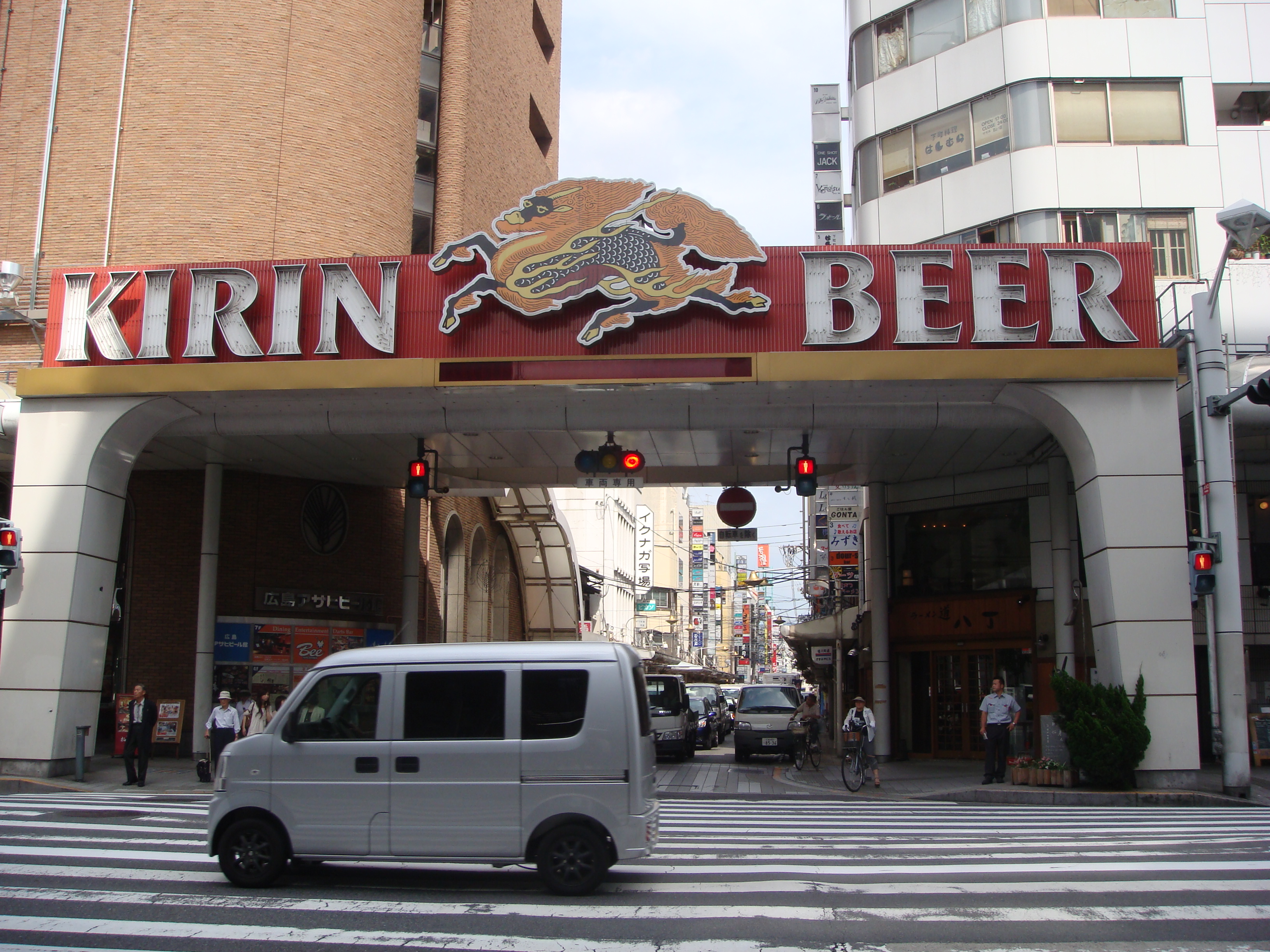 Kirin Beer Sign in Hiroshima, Japan